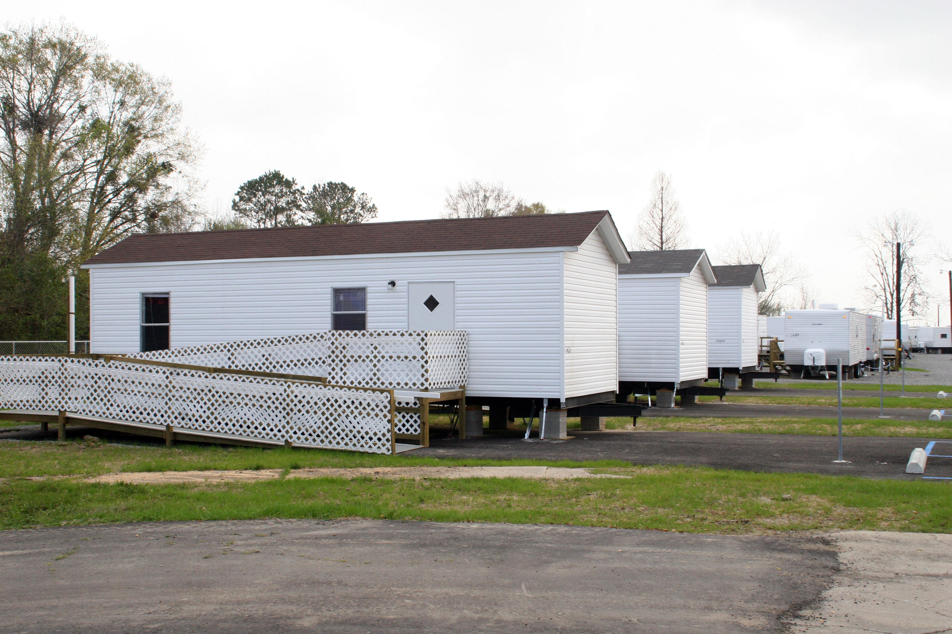 Baton Rouge, LA, March 6, 2006 - FEMA provided mobile homes are positioned alongside FEMA provided travel trailers at this Baton Rouge Airport Park for hurricane victim homeowners and renters with dwellings destroyed by the storm. For temporary housing until home repairs can be completed, the mobile home (approximately 15' by 50') is reserved for large families and those with medical conditions a smaller travel trailer (approximately 8' by 25') could not accommodate. Robert Kaufmann/FEMA